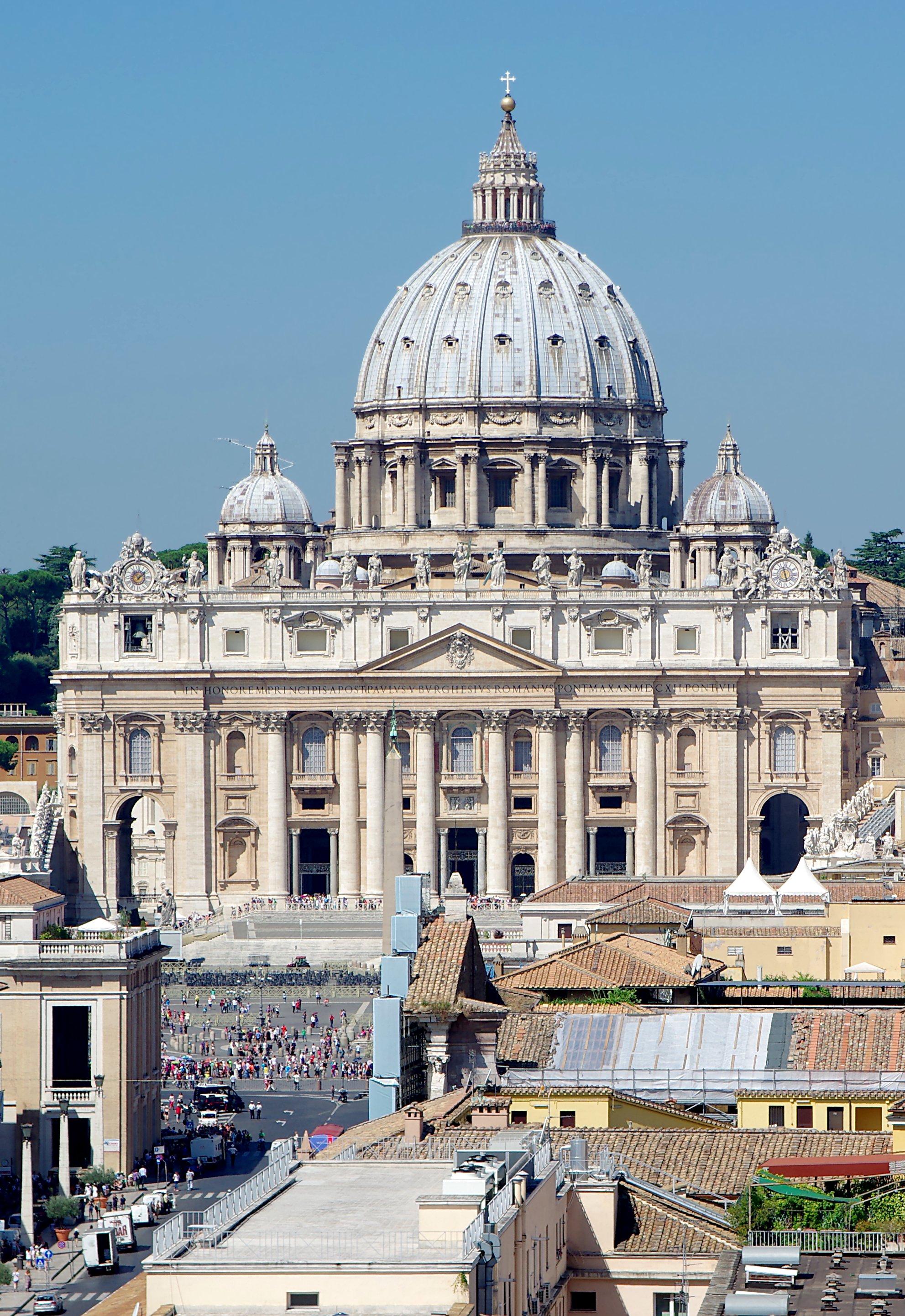 St. Peter's Basilica in Rome seen from Castel Sant'Angelo